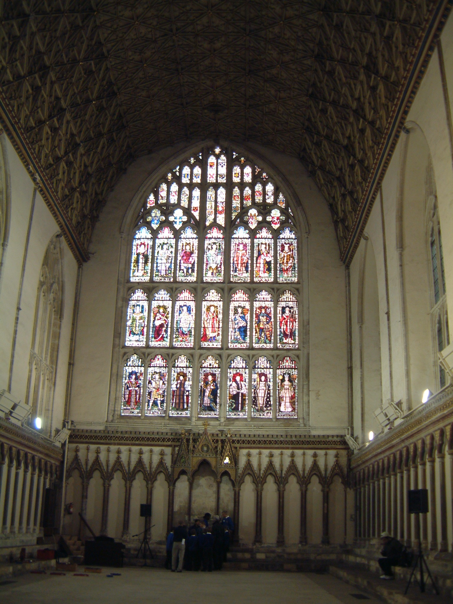 Canterbury - Glass window in the Chapter House of Canterbury Cathedral